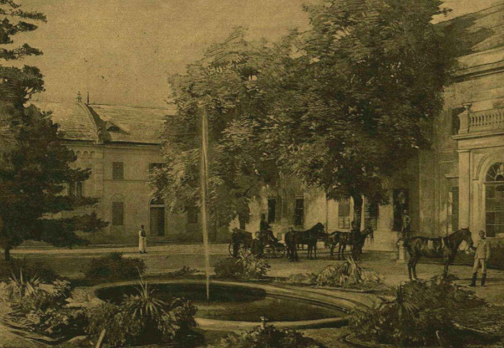 Habsburg Mansion, Alcsút, Hungary.